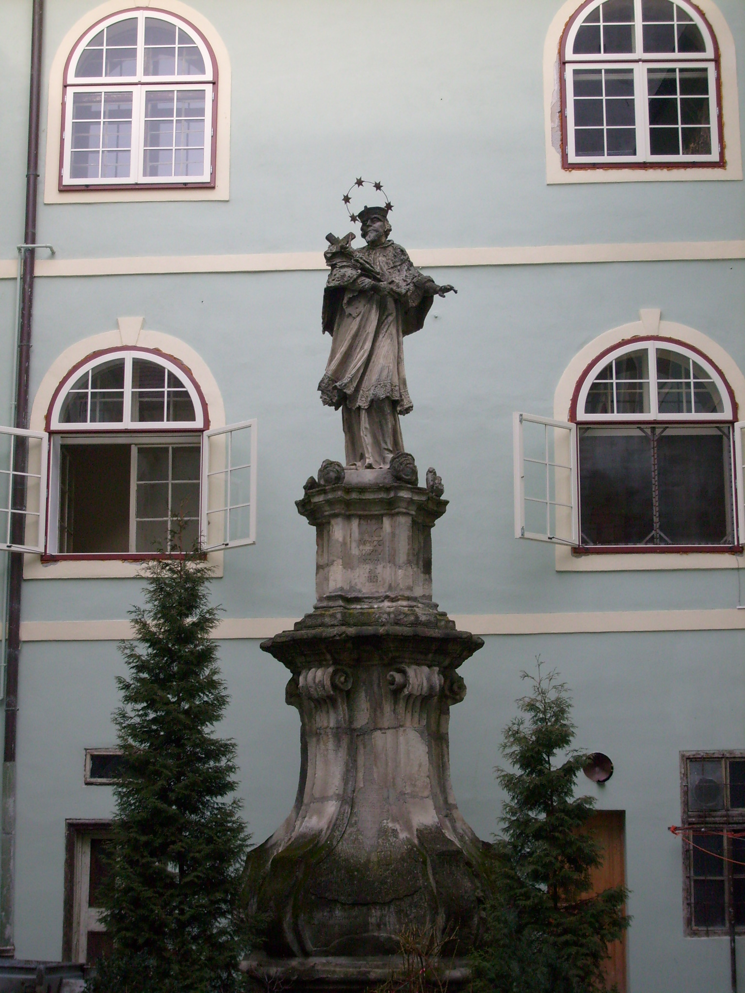 Statue of Johannes Nepomuk (1734) in Sibiu.